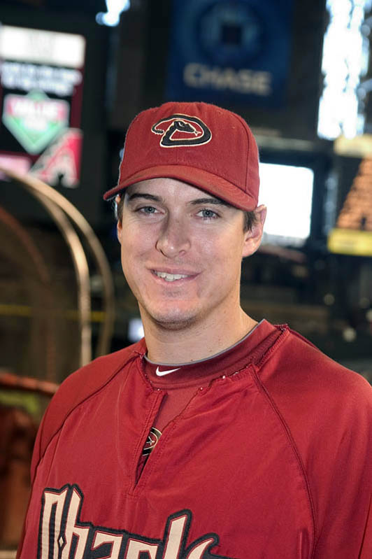 Description Kelly Johnson Date3 August 2010SourceI (Mwinog2777 (talk)) created this work entirely by myself.Author~Mark winograd 06:00, 24 September 2010 . . Mwinog2777 . . 532×799 (81 KB) Kelly Johnson